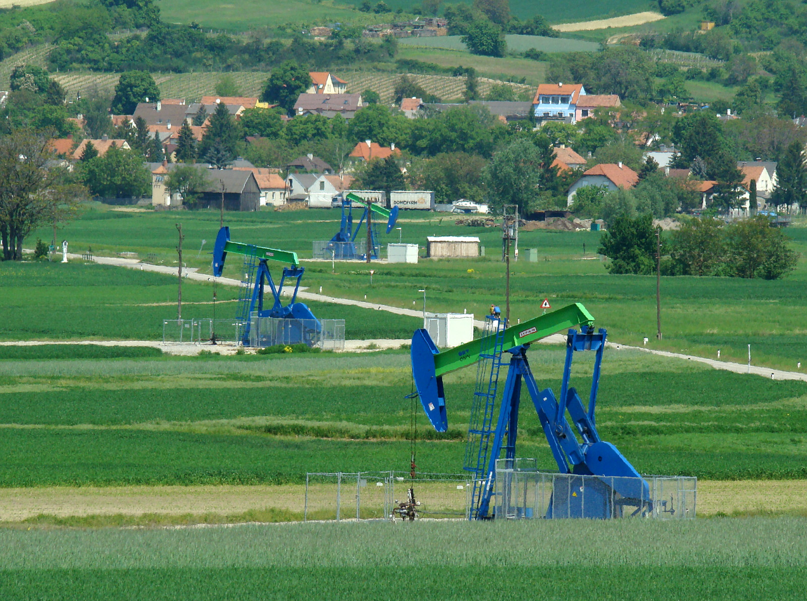 Pump jacks at the Matzen oil field in Lower Austria